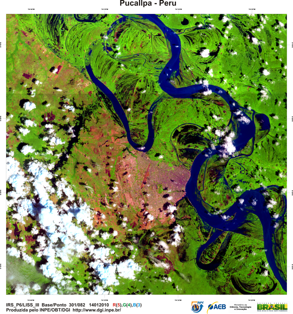 Image made by IRS-P6 satellite of the region of Pucallpa, Peru.